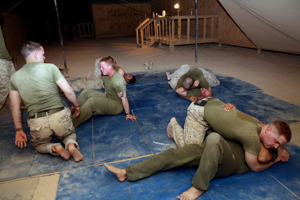 Marines with 3rd Battalion, 4th Marine Regiment, Regimental Combat Team 5, practice grappling techniques at Combat Outpost Haditha, Iraq, May 4. Staff Sgt. William M. Loushin, assistant operations chief and watch officer, 3rd Bn., 4th Marines, has been teaching Marine Corps Martial Arts Program gray belt class, Brazilian Jiu Jitsu and Muy Thai techniques. Loushin holds a purple belt in Brazilian Jiu Jitsu, a black belt instructor trainer belt in MCMAP and has experience in Muy Thai.